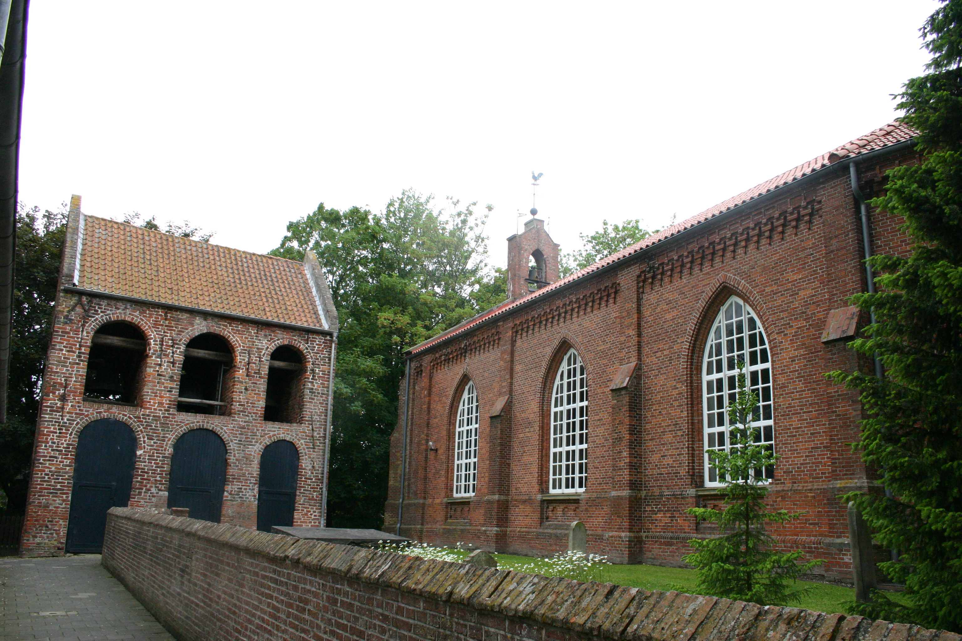 Historic church in Loppersum, district of Aurich, East Frisia, Germany